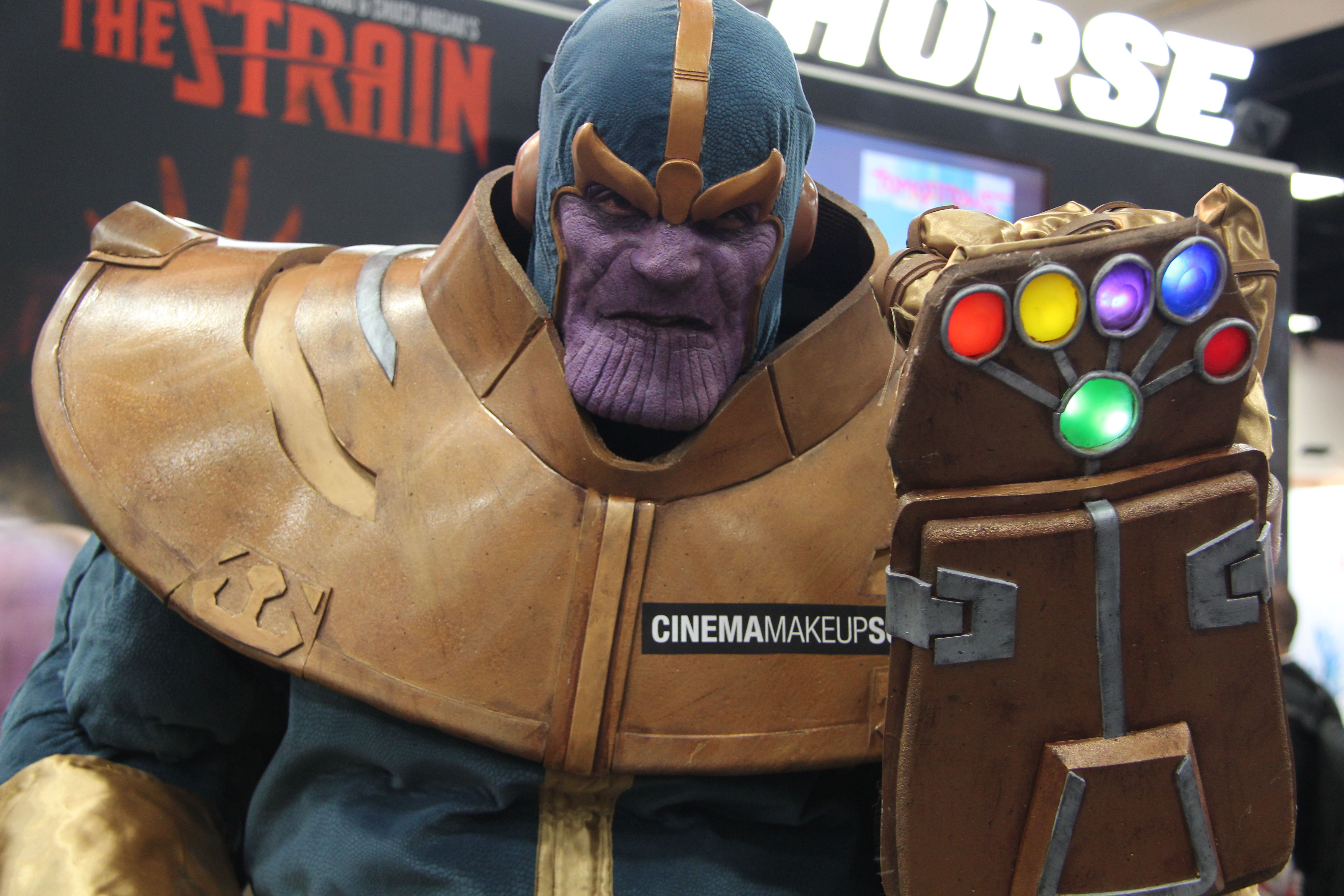 Mick Ignis cosplaying as Thanos (from Marvel Comics), and representing the Cinema Makeup School, at San Diego Comic Con 2015.